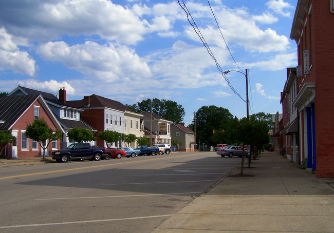 View of Main Street, Kingston, Ohio